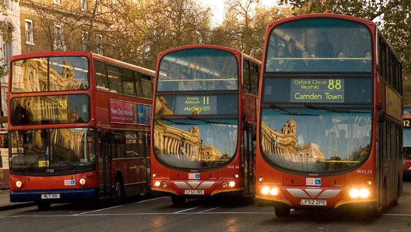 London buses